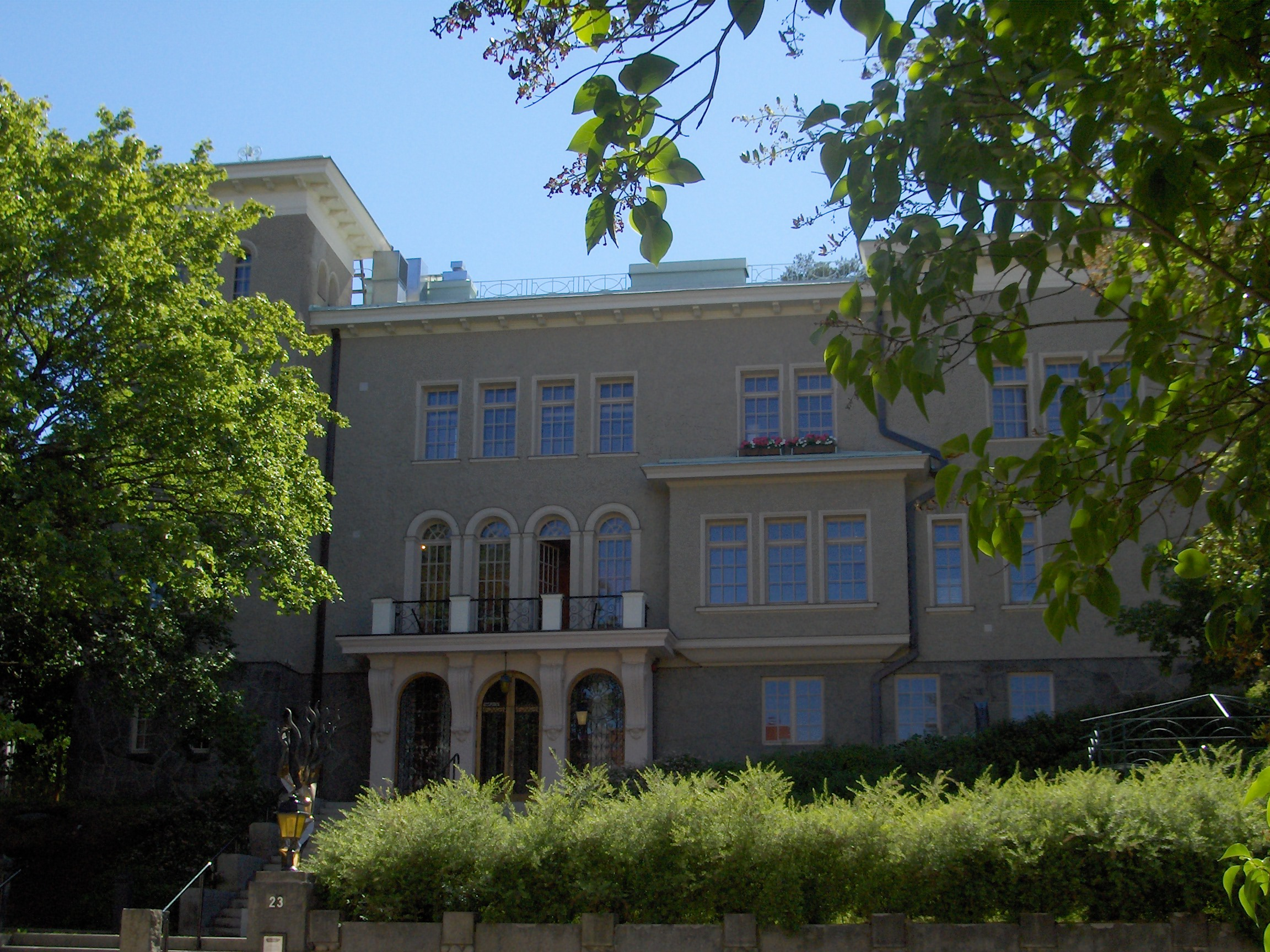 Willa Mac, museum of Finnish contemporary art in Tampere, Finland